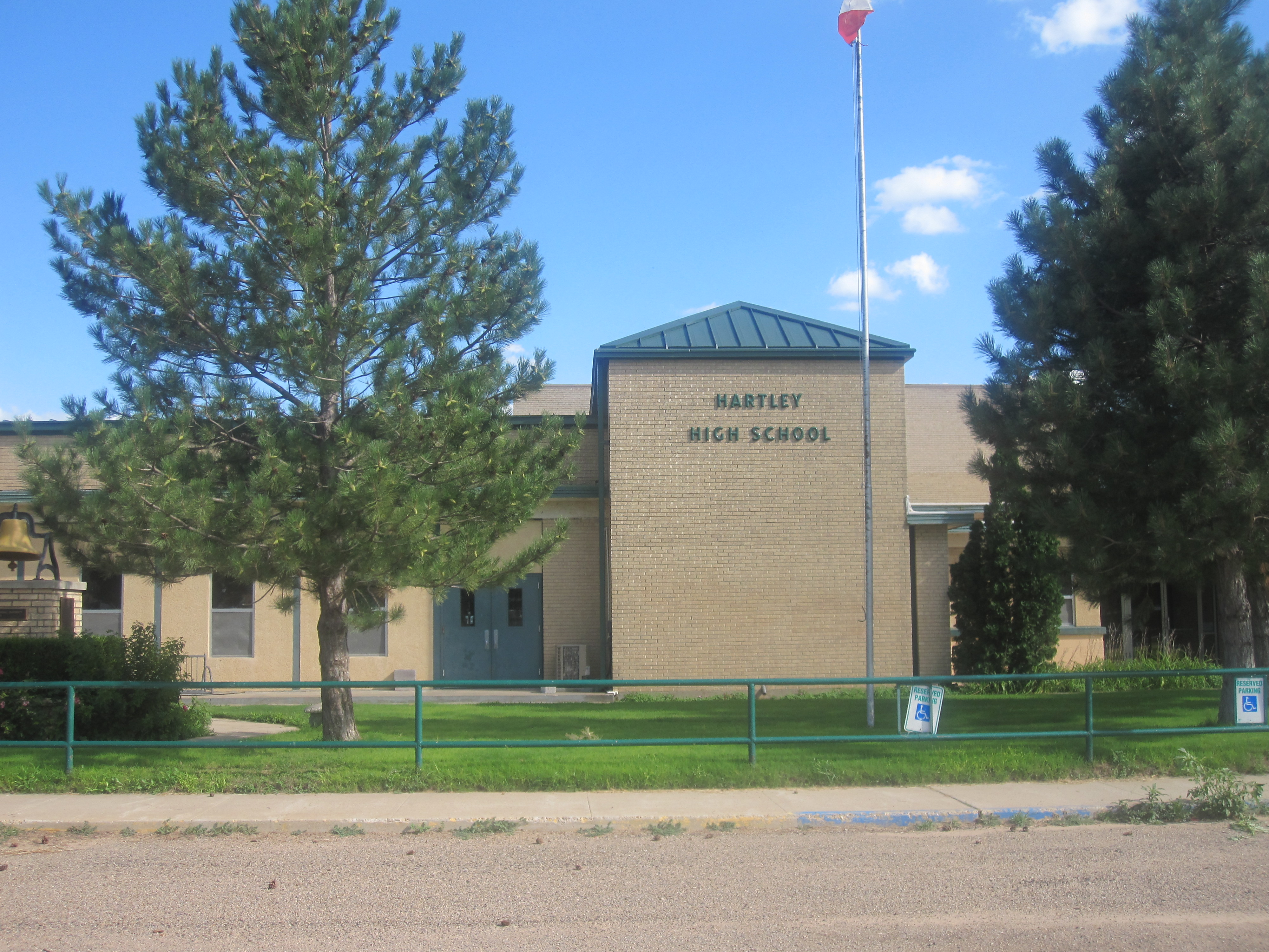 I took photo with Canon camera in Hartley, TX.